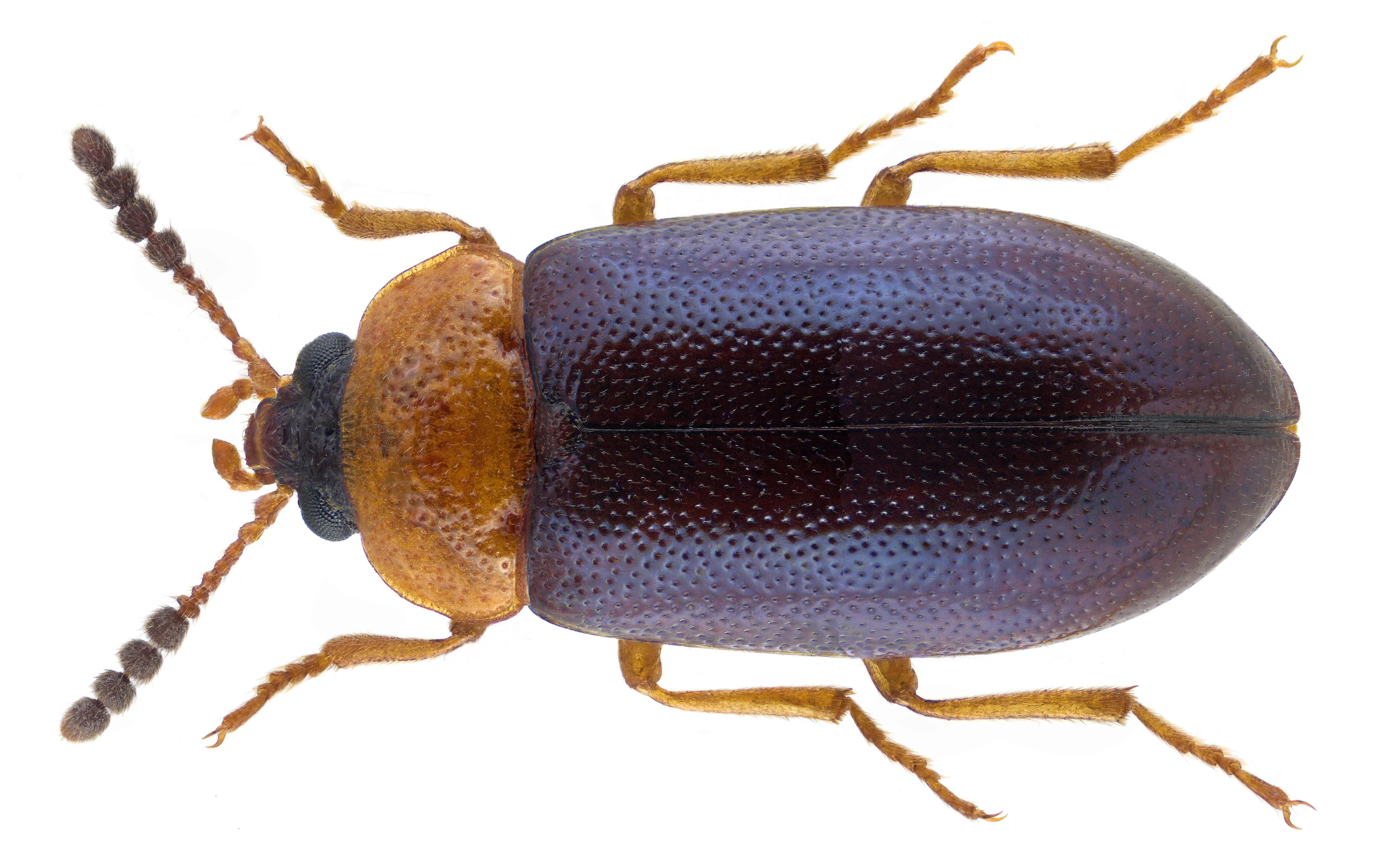 Tetratoma fungorum (Fabricius, 1790) Family: Tetratomidae Size: 3.0 mm (4.0 to 4.5 mm) Distribution: Europe Ecology: On tree sponges of deciduous trees Location: England, Vicars Wood Dy leg.det. D.R.Nash, 24.X.1988 Coll. Oxford University Museum of Natural History Photo: U.Schmidt, 2018